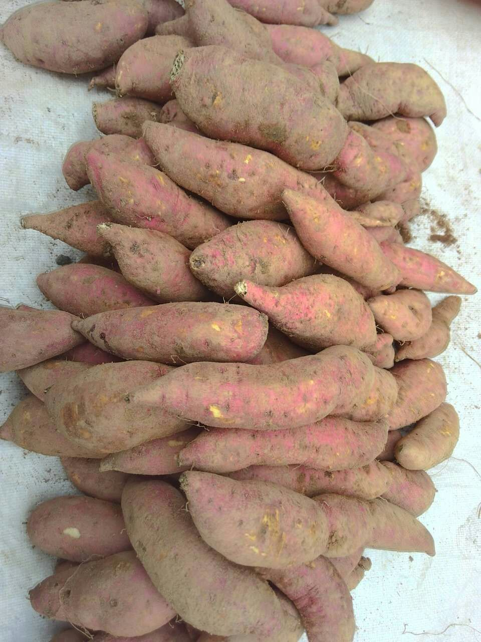 A special kind of potatos in Yangxi County